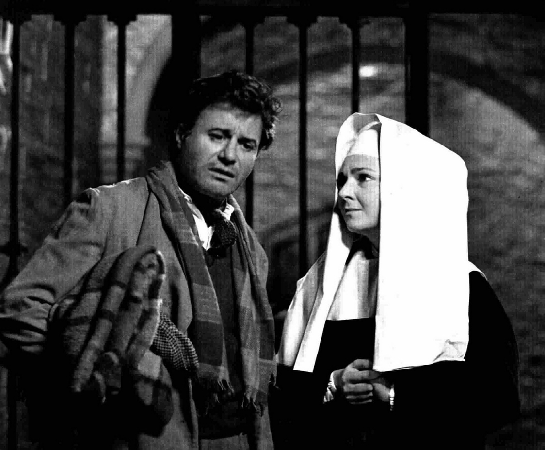 Italian actors Ferruccio De Ceresa and Cecilia Sacchi shooting Italian RAI miniseries Losey il bugiardo